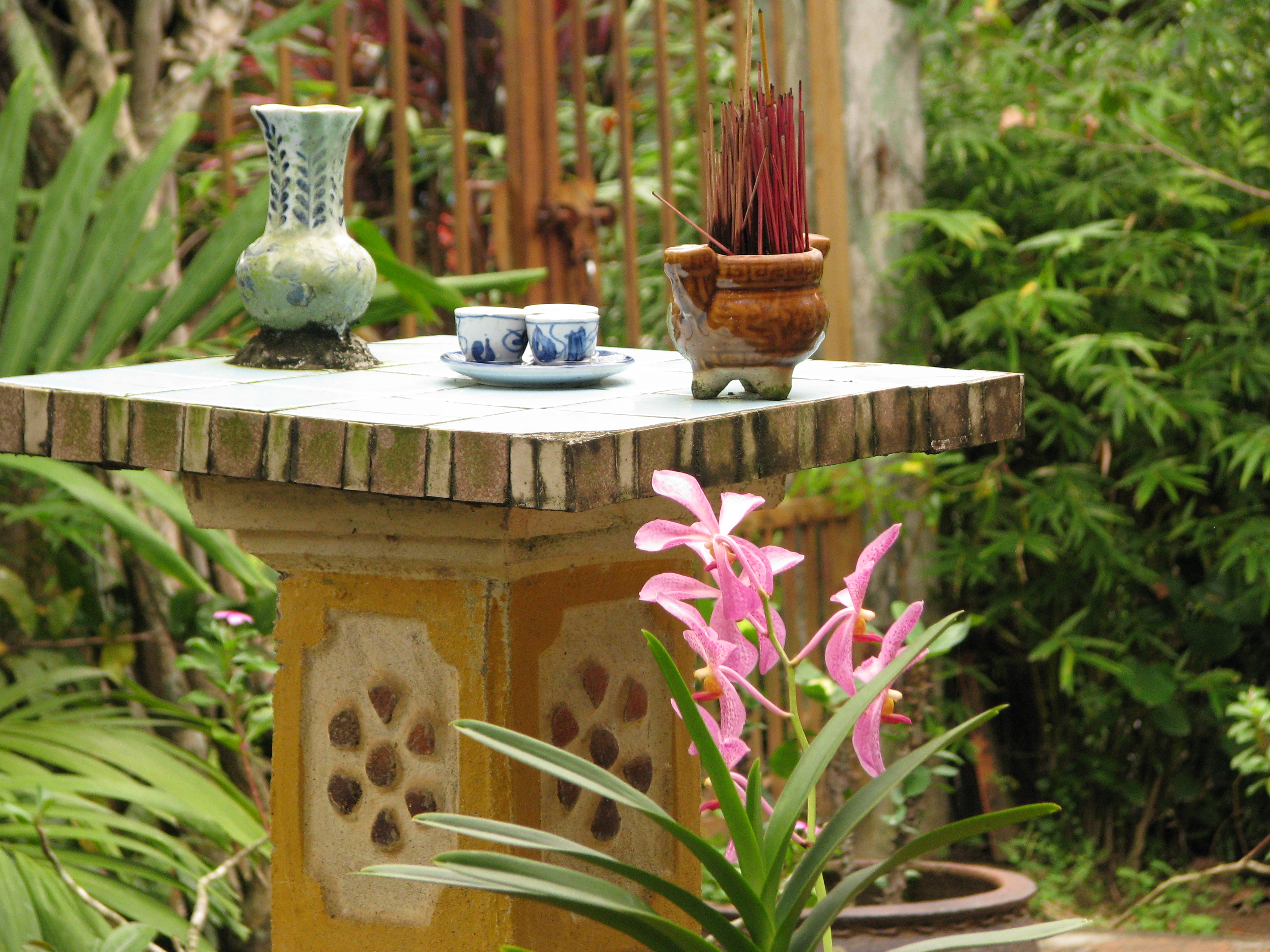 The garden of the "homestay" house I stayed in on Hoa Phuoc islands off Vinh Long. This side was very pretty, and home-like